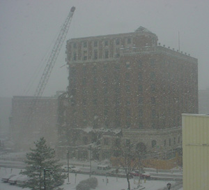 Demolition of the Terre Haute House procedes apace, unhindered by a snowstorm.